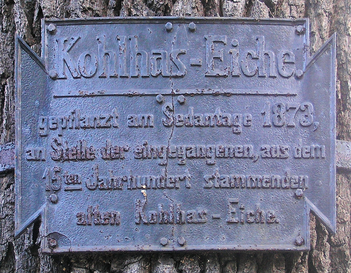 Memorial plaque, Hans Kohlhase, Königsweg 313, Berlin-Wannsee, Germany